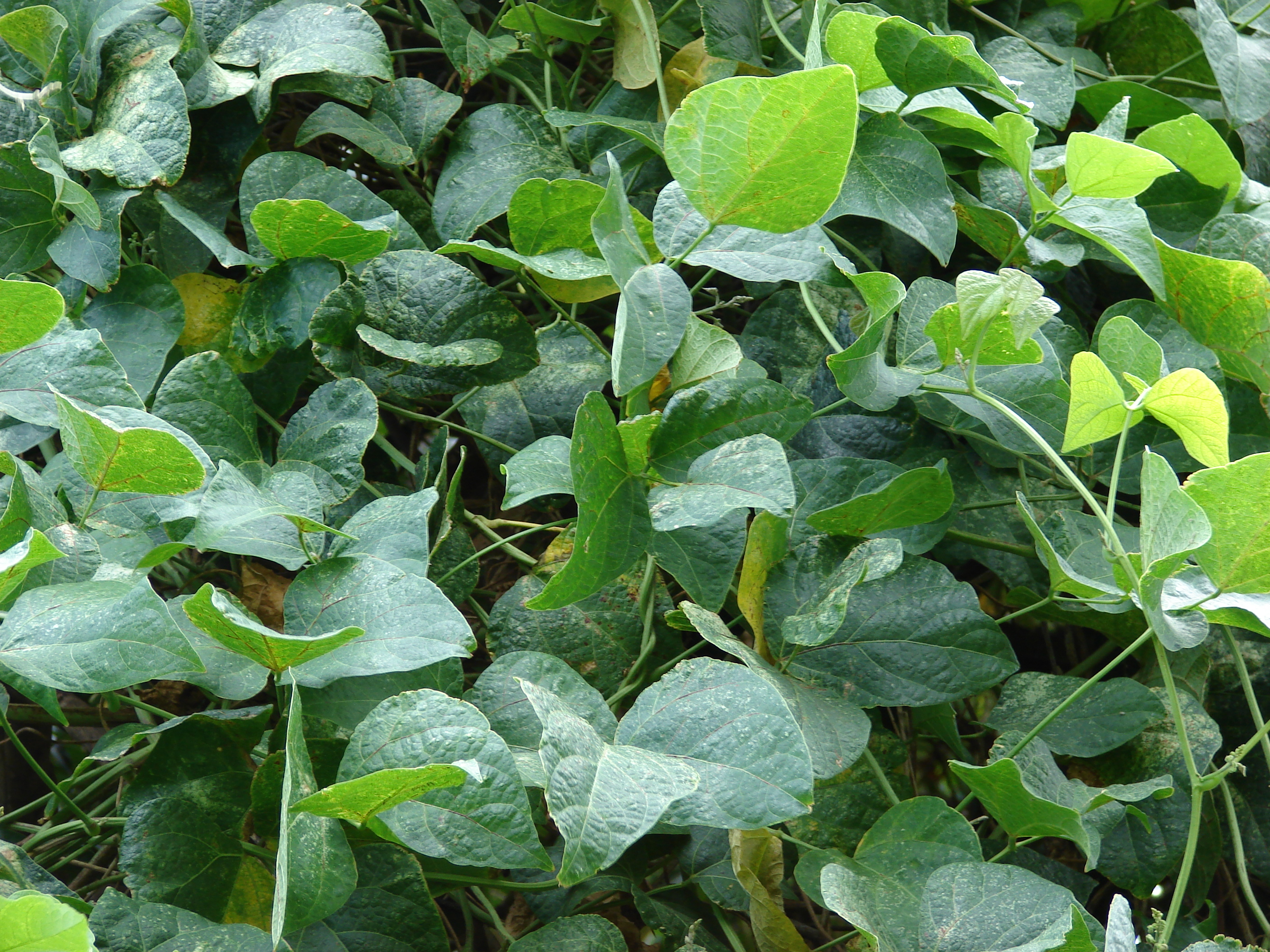 Phaseolus lunatus (leaves). Location: Maui, County Nursery Kahului